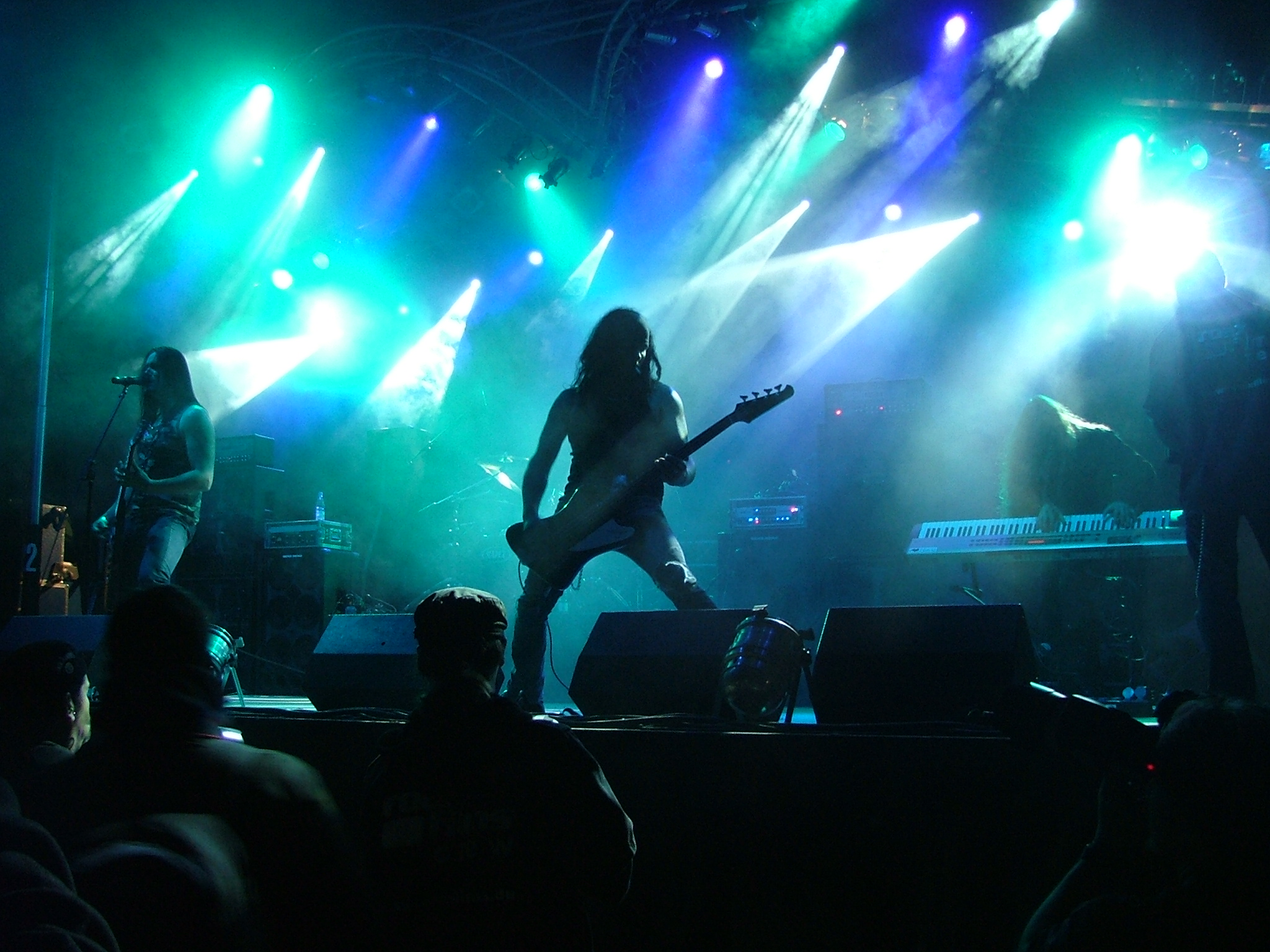 Finnish gothic metal band Poisonblack